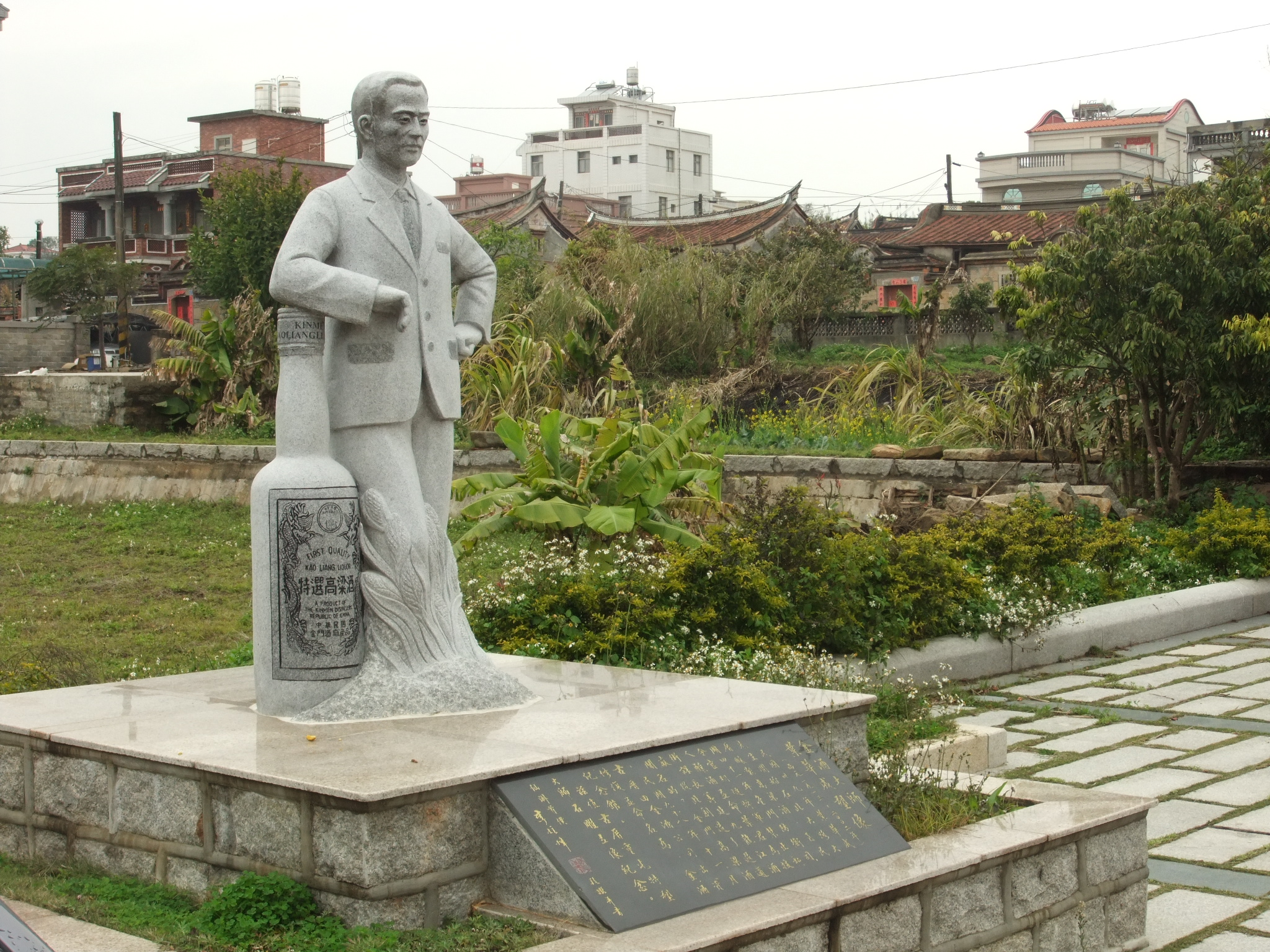 Kinmen Distillery. Outside of the main door, one can see the statue of the founder.